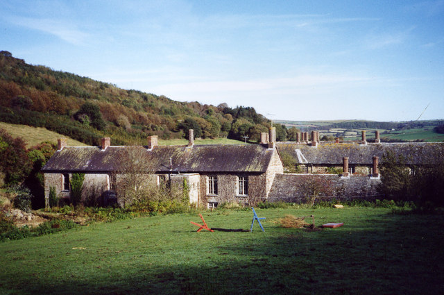 Cardigan Workhouse This institution, which is some way from the town, in fact across the river in St Dogmael's, was built in 1839/40 for the relief of the poor, needy and unfortunate of the district, following the passing of the infamous Poor Law Amendment Act in 1834. The building, intended to accommodate 120 inmates, was designed by William Owen of Haverfordwest. The workhouse layout followed the popular cruciform or "square" design, with its entrance block facing north-east. There were separate entrance doors for males and females. The building, marked as Castle Albro on the OS map, is now privately owned.